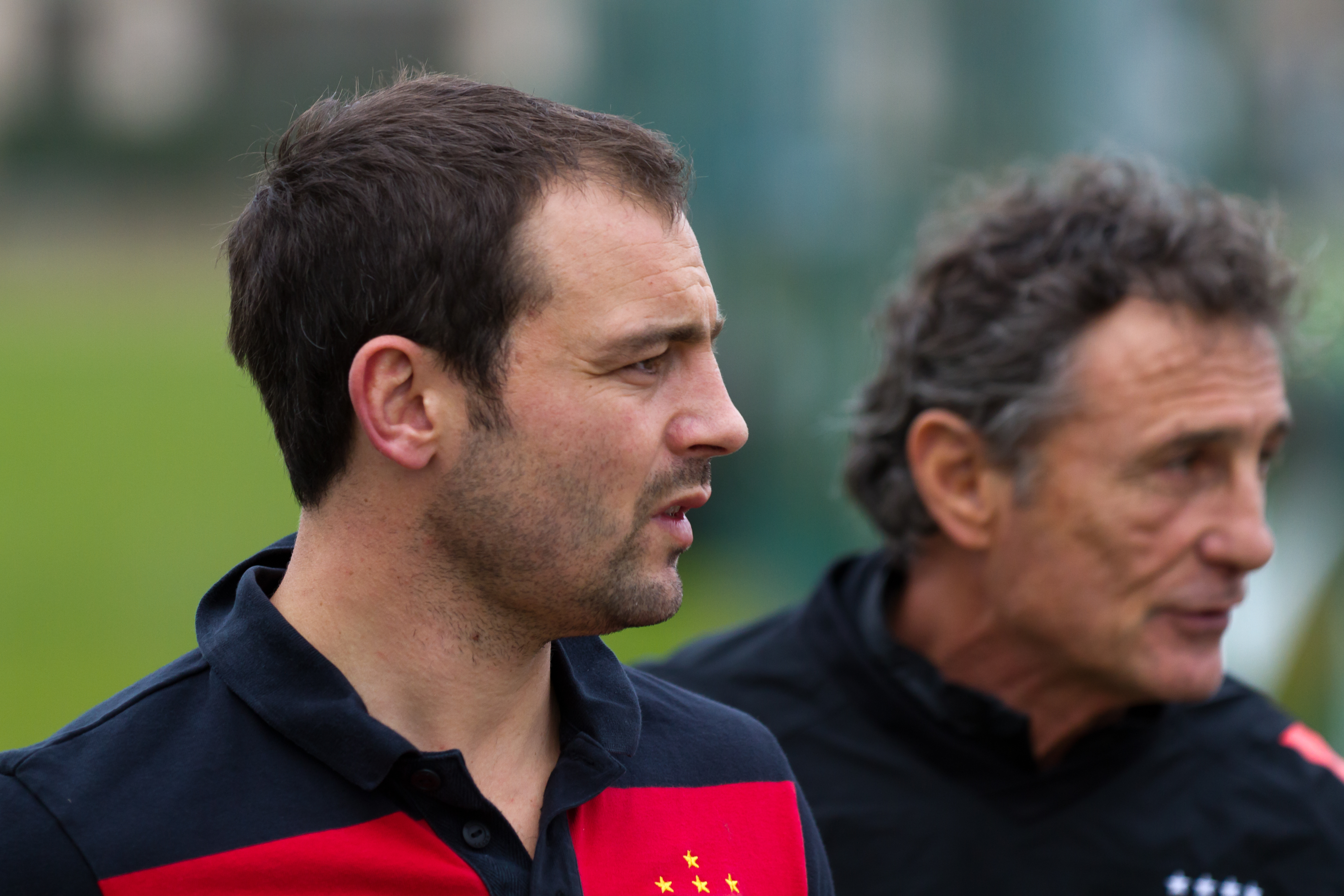 Top 14 — 7 January 2012, Stade Ernest-Wallon. Match between: Stade toulousain — Lyon olympique universitaire